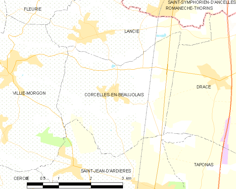 Map of French municipality